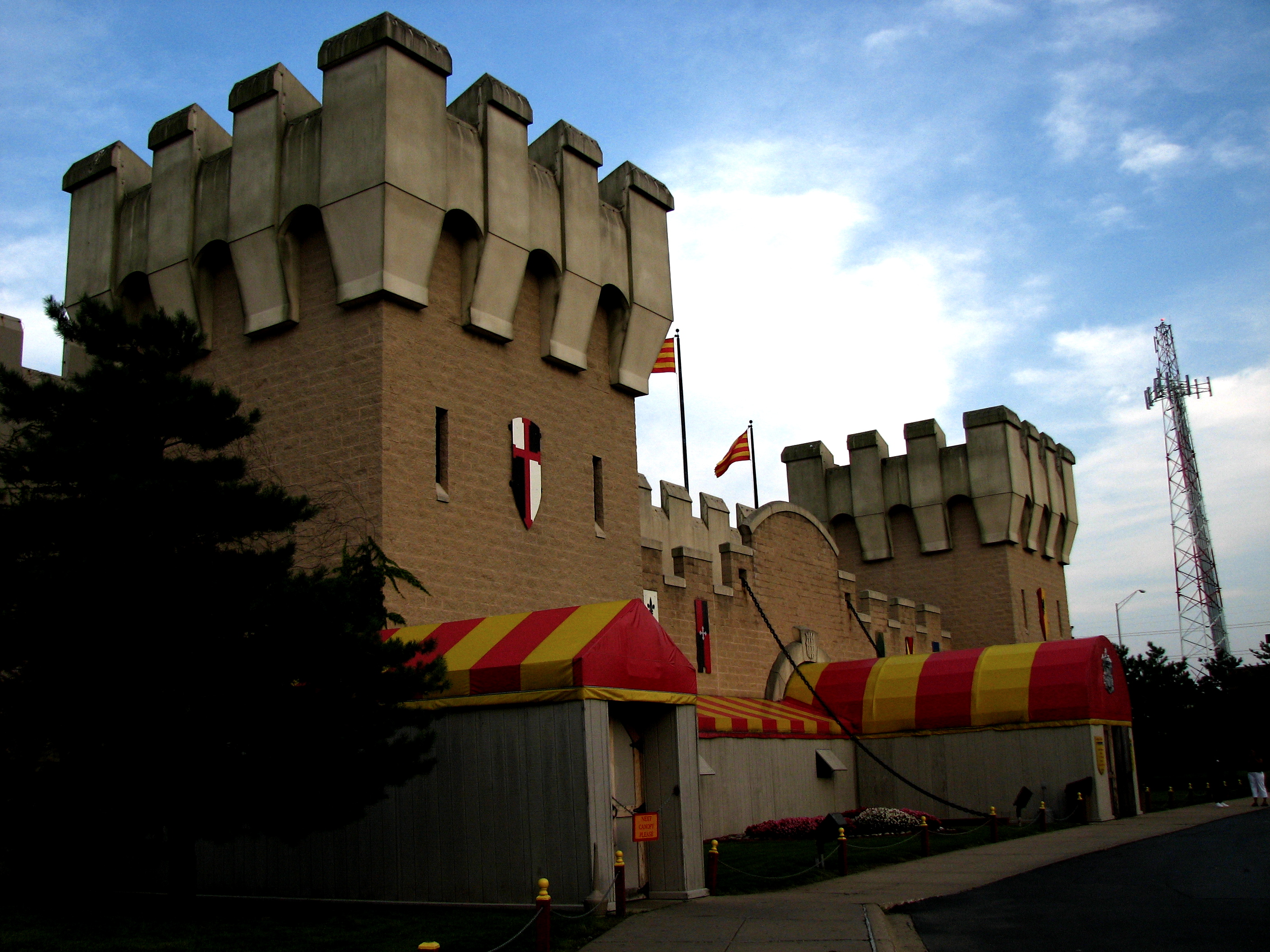 United States - Illinois - Chicago - Medieval Times Dinner Tournament - American Castle